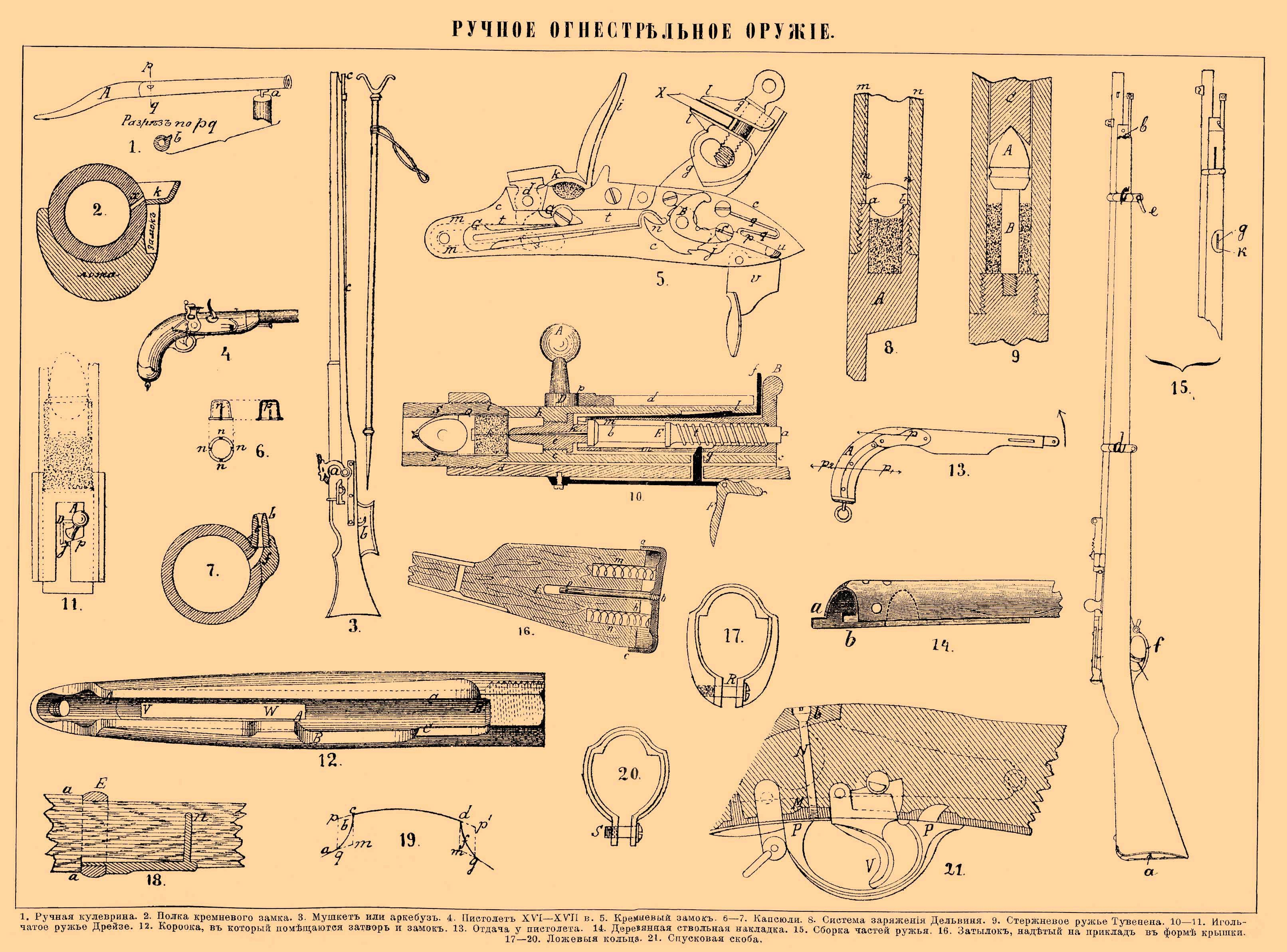 Illustration from Brockhaus and Efron Encyclopedic Dictionary (1890—1907)